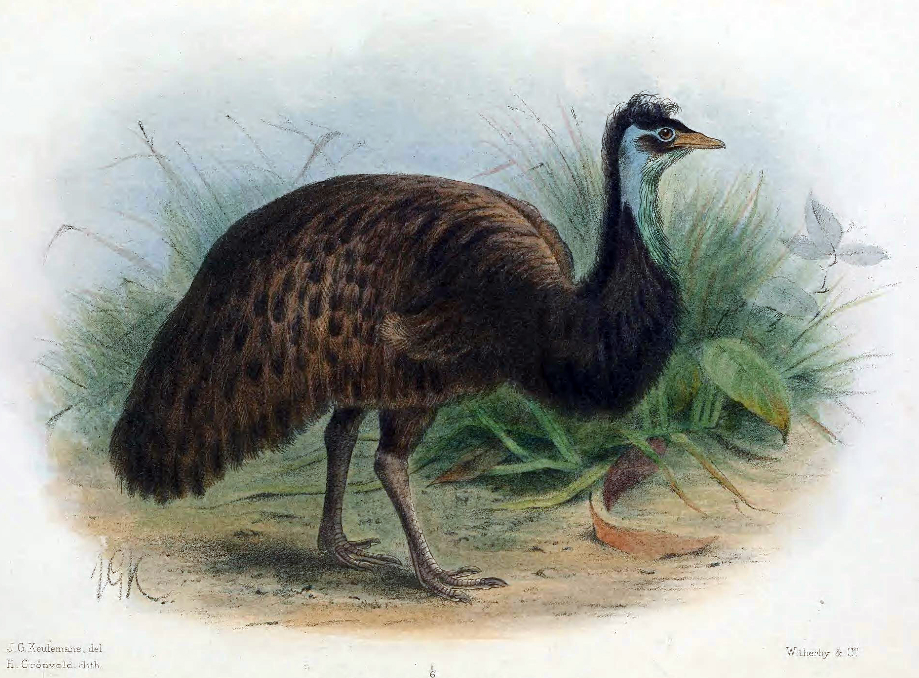 Hand coloured lithograph (circa 1911) of (Dromaius parvulus) which is now a synonym of the Kangaroo Island Emu (Dromaius baudinianus) from The Birds of Australia (1910-28) by Gregory Macalister Mathews (1876-1949) - the specimen was later shown to come from King Island instead.